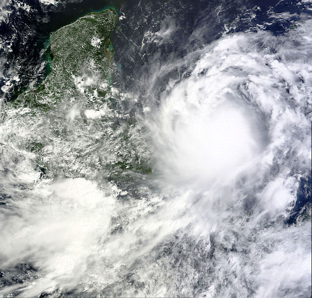 Tropical Storm Matthew on September 24, 2010